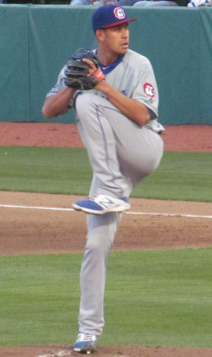 Chattanooga Lookouts vs. Tennessee Smokies - Smokies Park - Kodak, Tennessee - April 9, 2014